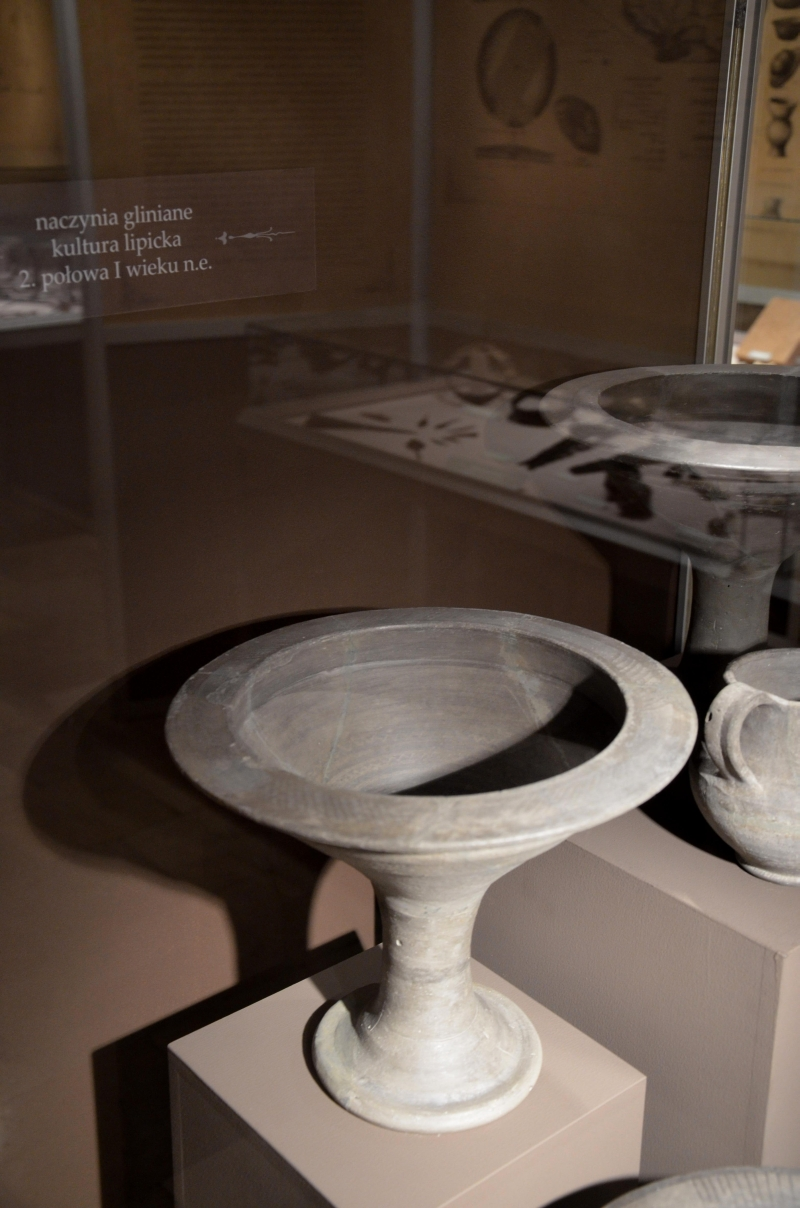 Pottery of the Lipița culture (associated with Costoboci, a Dacian tribe) located in the space between the Dniester and Moldova between 1st century BC to the 5th century AD. Archaeological Museum in Kraków.